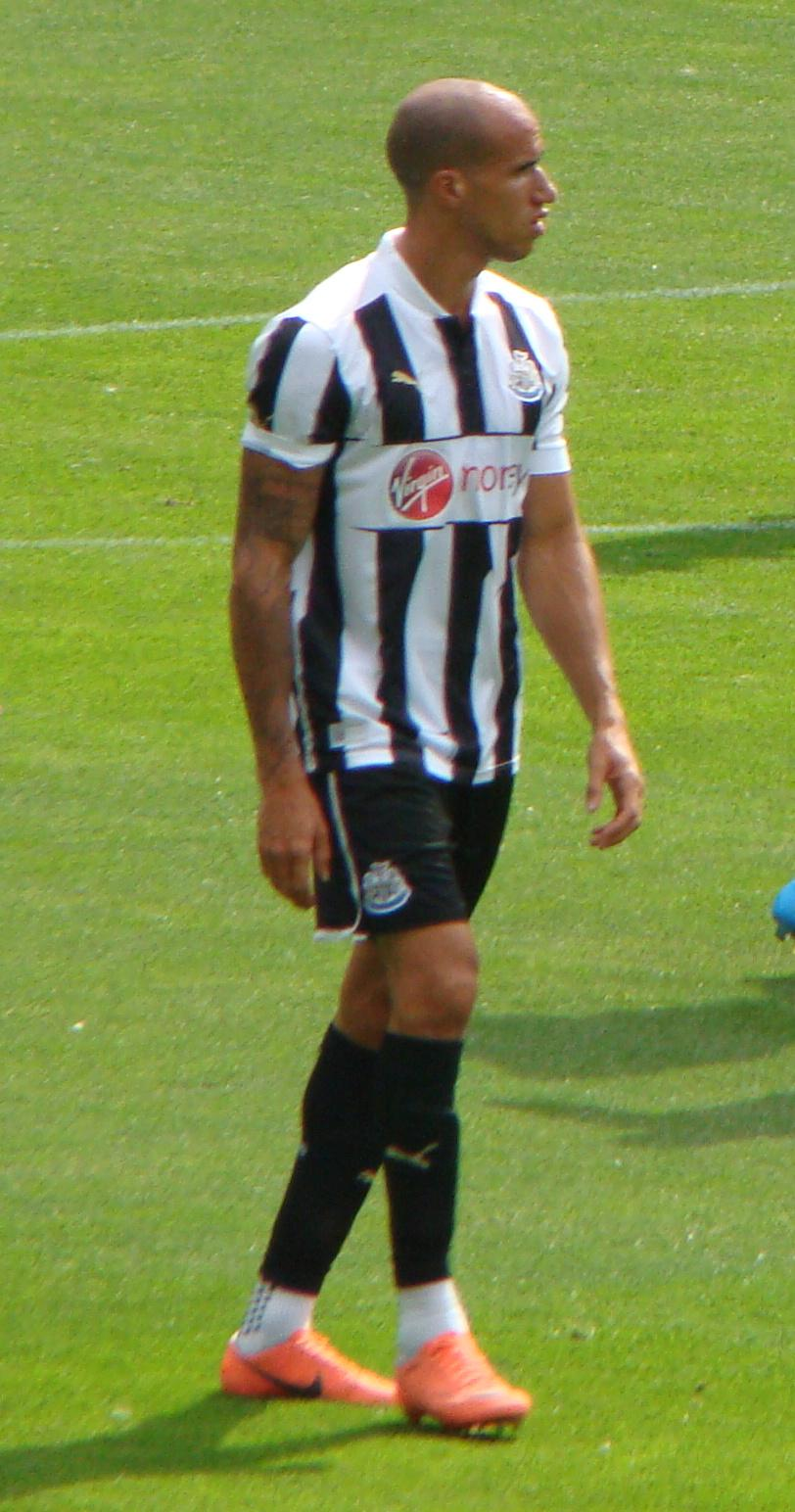 Obertan v Cardiff